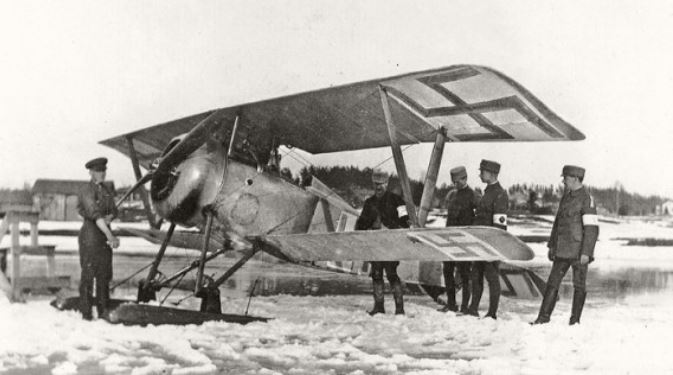 1918 Finnish Civil War: Niuport 17 fighter at the Antrea Airfield.